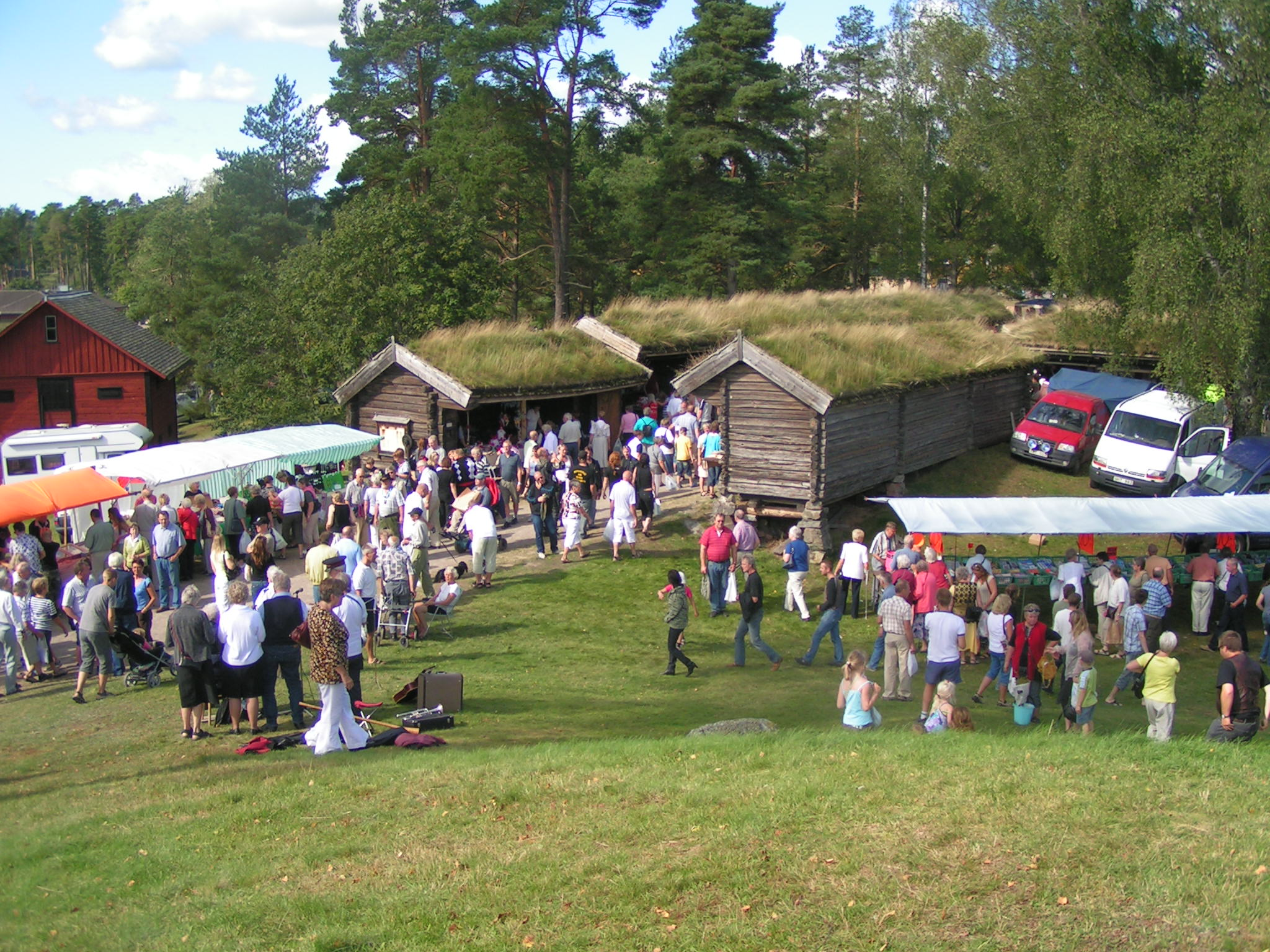 Nysäter fair